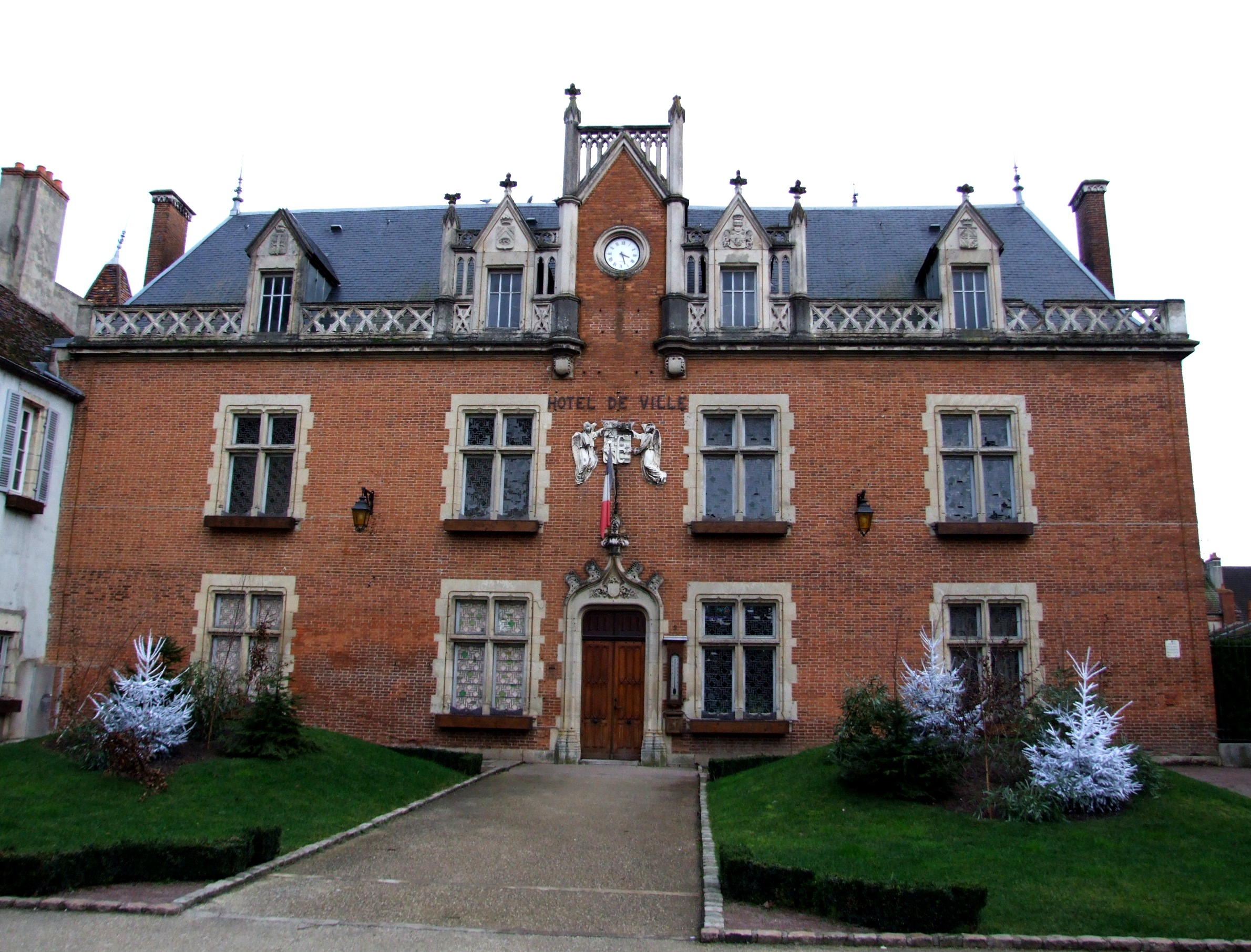 Town Hall, Auxonne, Burgundy, FRANCE